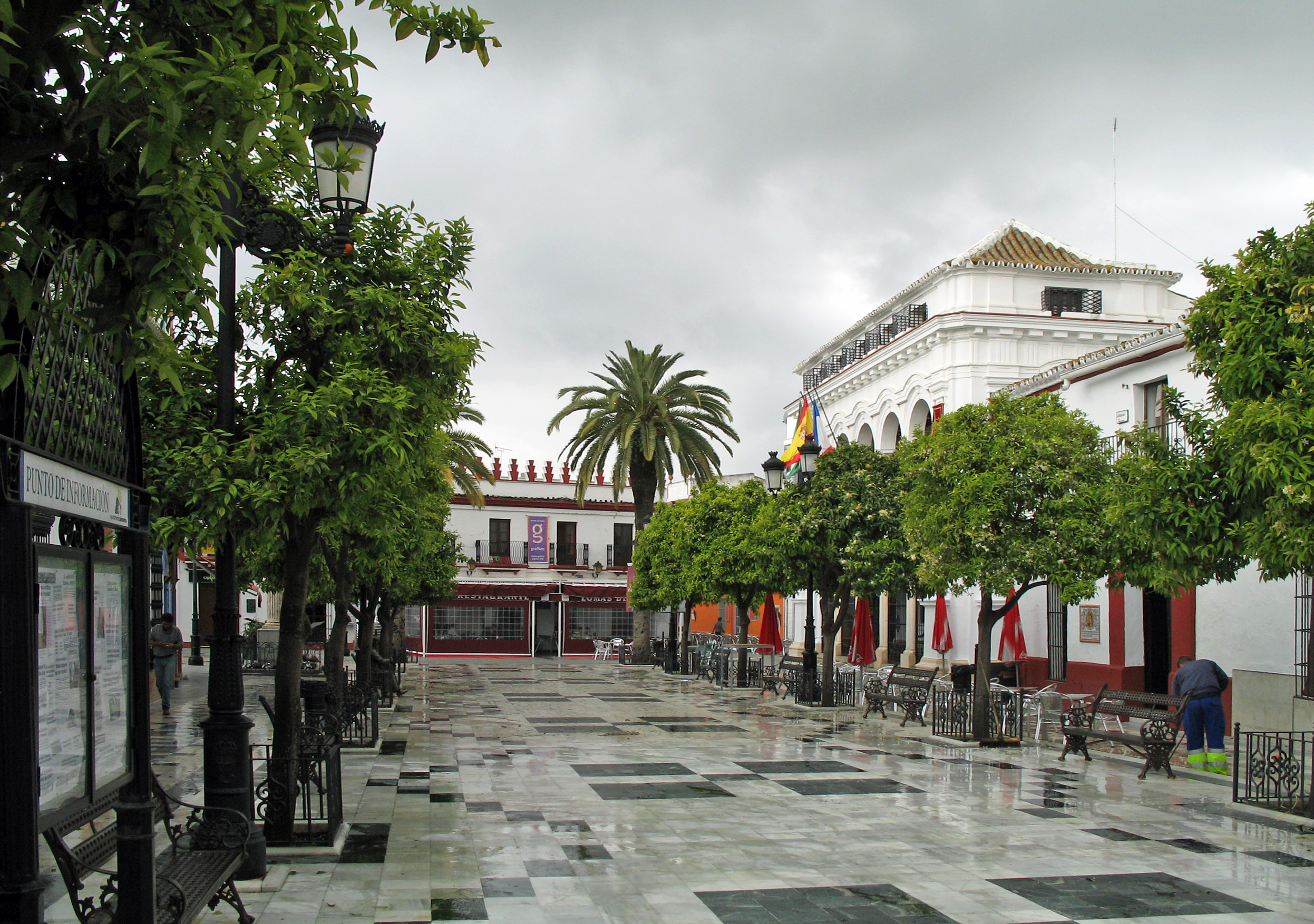 Almonte (province of Huelva, Andalusia, Spain): main square or Plaza Virgen del Rocío